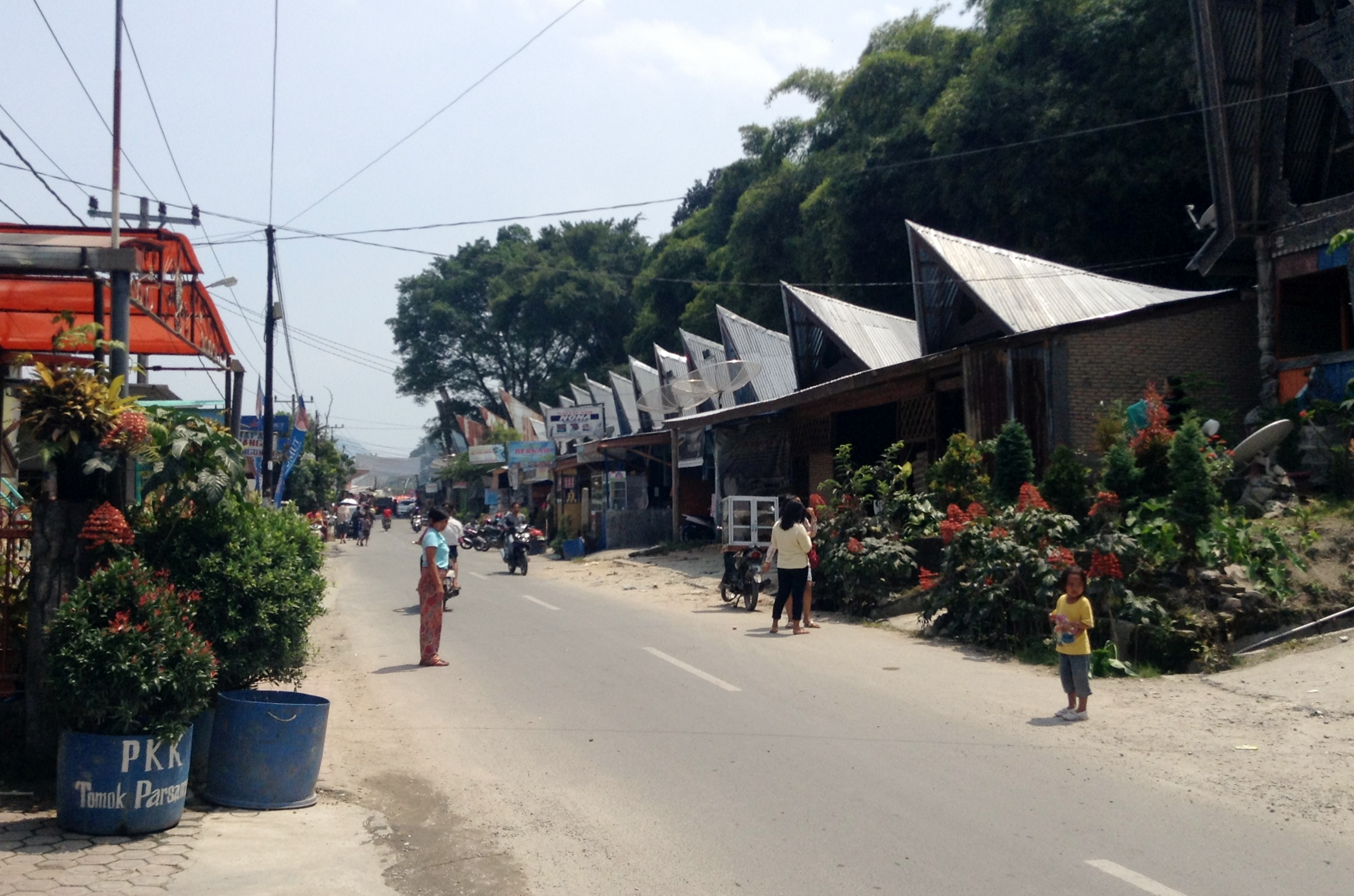 View of Tomok Parsaoran, Simanindo, Samosir